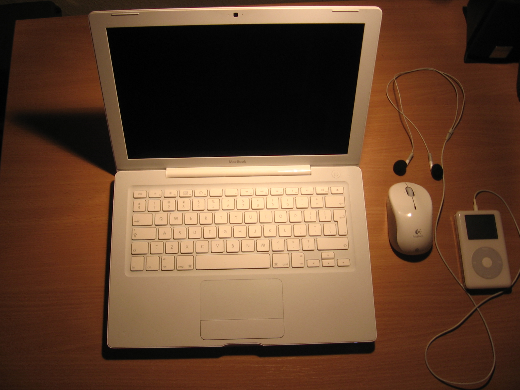 Mac Book white, mouse Logitech, iPod Classic 3G